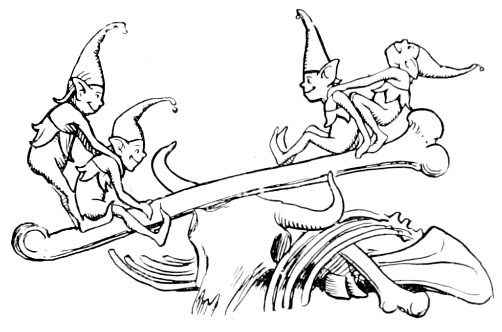 Scan illuatration on page of book in a series of fairy tales. A warning to children.